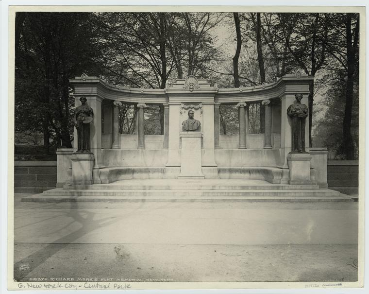 Poscard view of the Richard Morris Hunt Memorial on Fifth Avenue in New York City between 70th and 71st Streets on the Upper East Side. Hunt was a well-known New York architect. Courtesy of the New York Public Library Digital Collection.